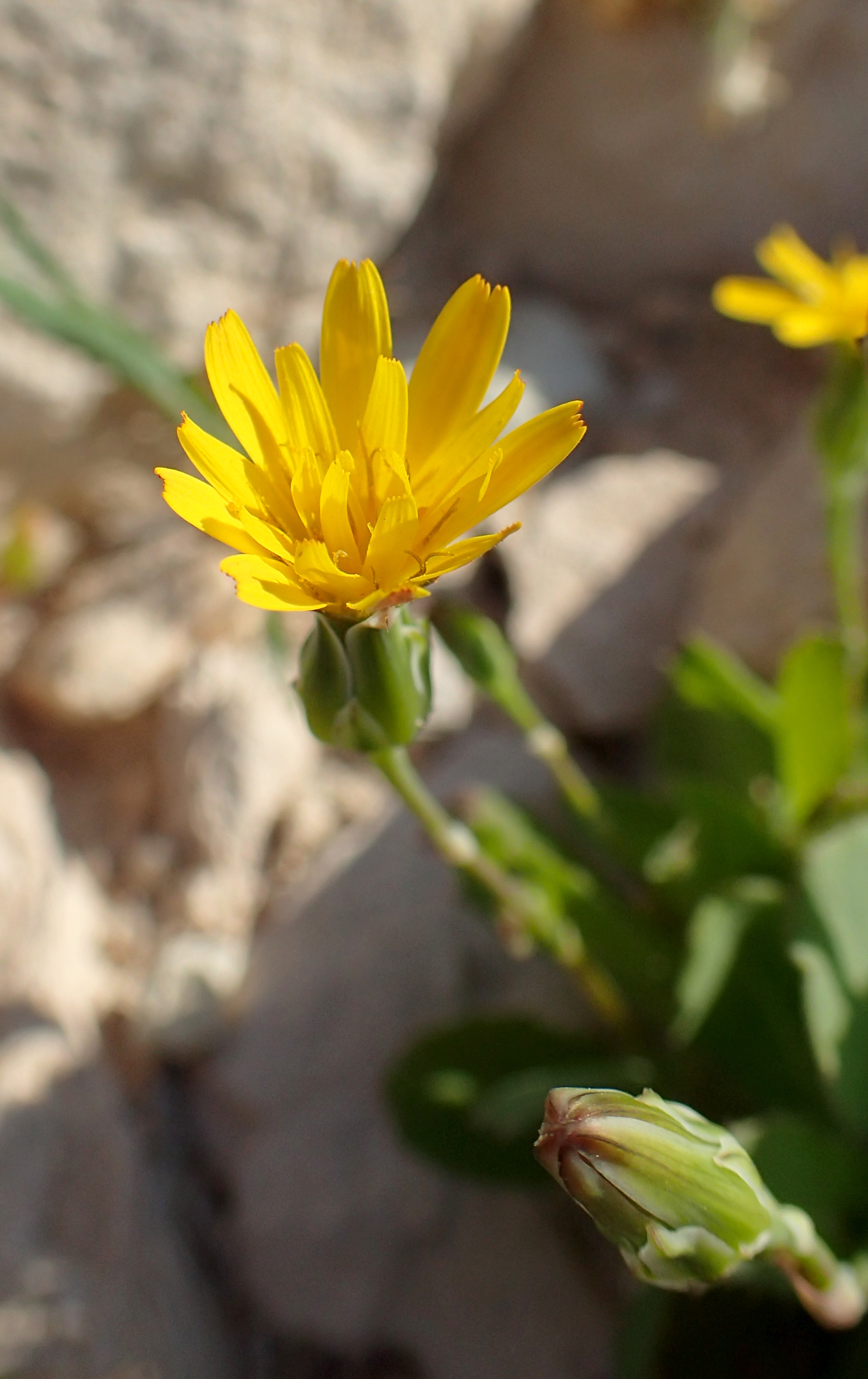 Reichardia intermedia in Petra tou Ramiou, Cyprus